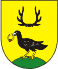 Coat of arms of Útery town, Plzeň-North District, Czech Republic